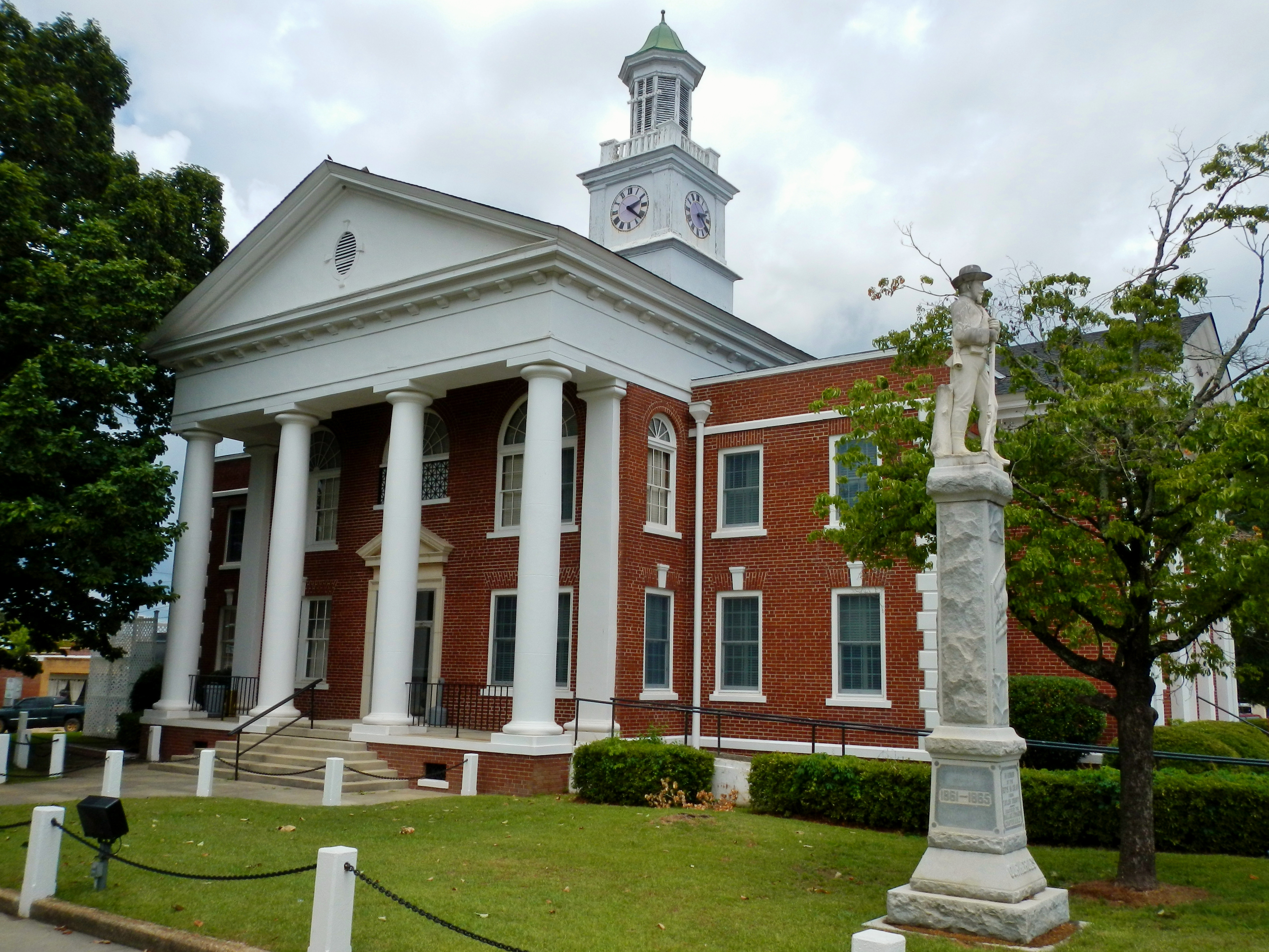 This is a photo of the Taylor County Courthouse.